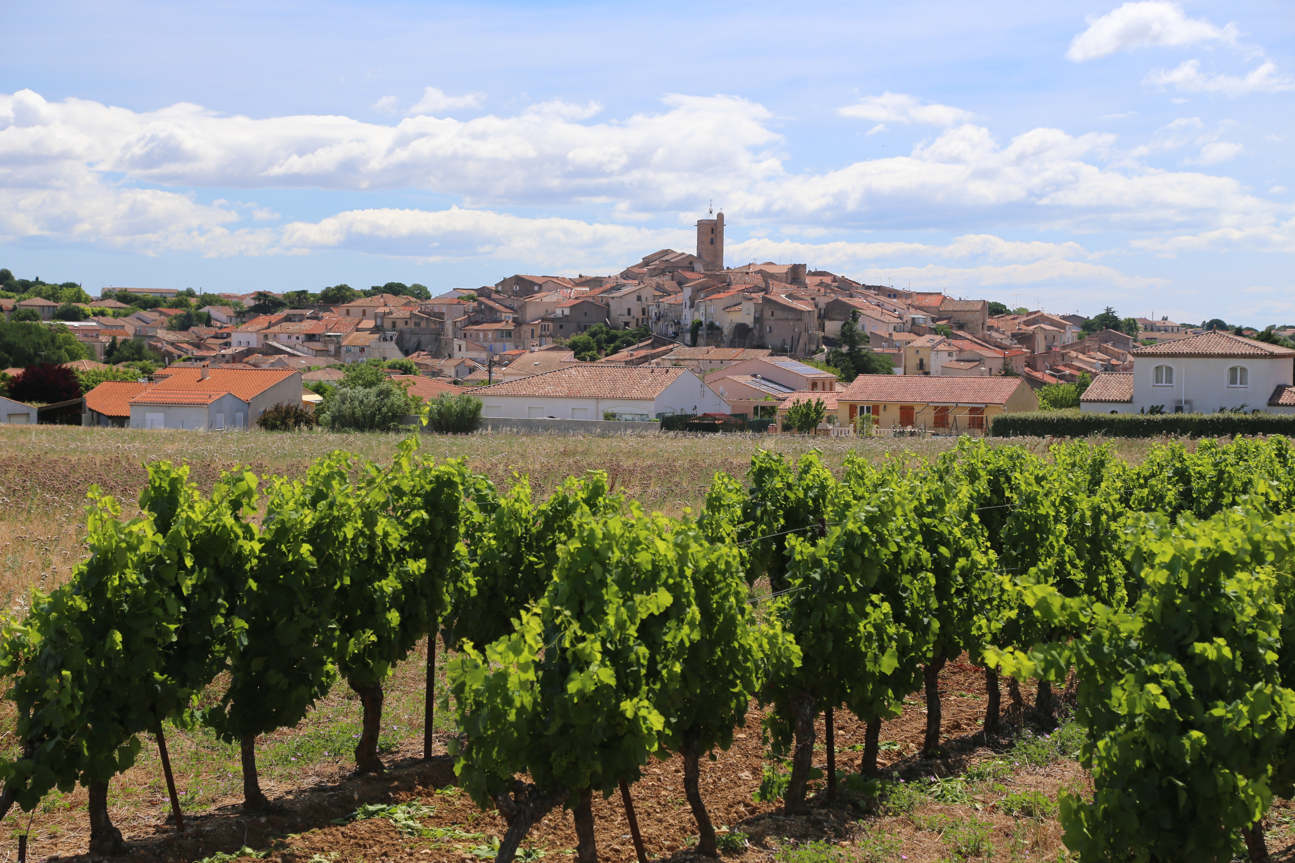 34290 Servian, France